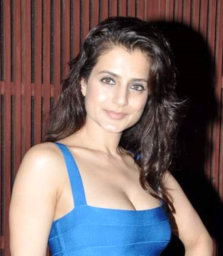 Ameesha Patel at Farah Khan Ali's store launch